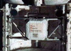 during STS-91, as seen from Mir. NASA ID: NASA7-726-063C